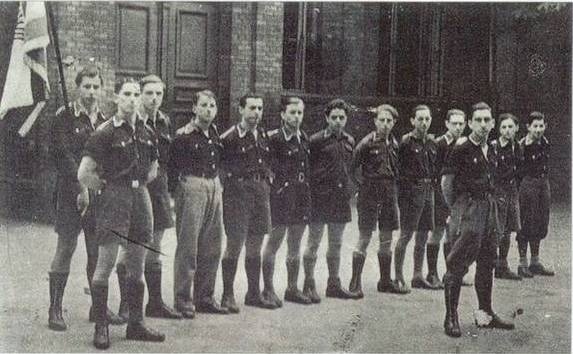 Young Jewish members from German Chapter of Betar in Berlin, 1936.